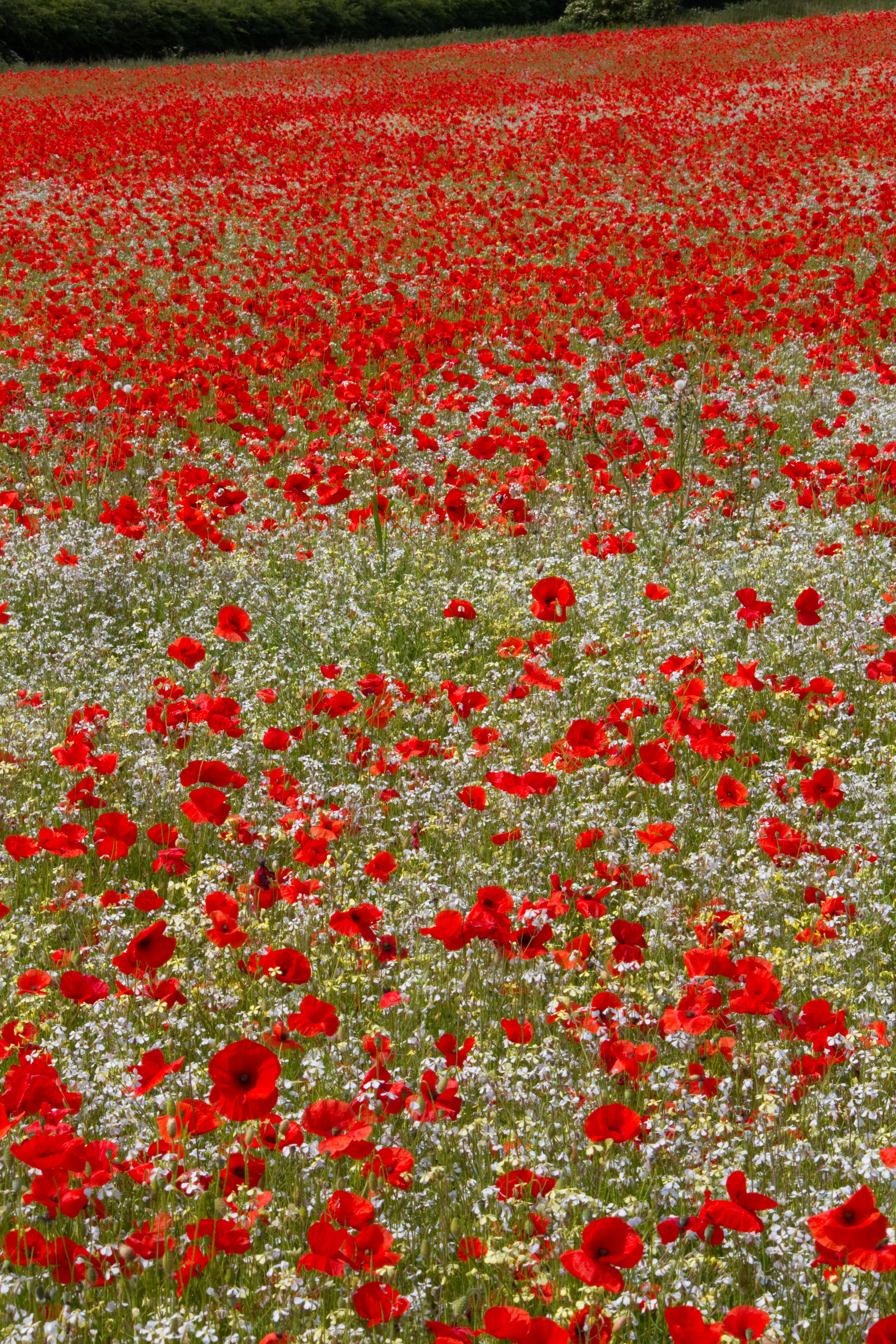 The Worcestershire Wildlife Trust poppy (Papaver rhoeas) dominated fallow field between Bewdley and Stourport, part of the Devil's Spittleful & Rifle Range and Blackstone Farm Fields Nature Reserve, Worcestershire, England